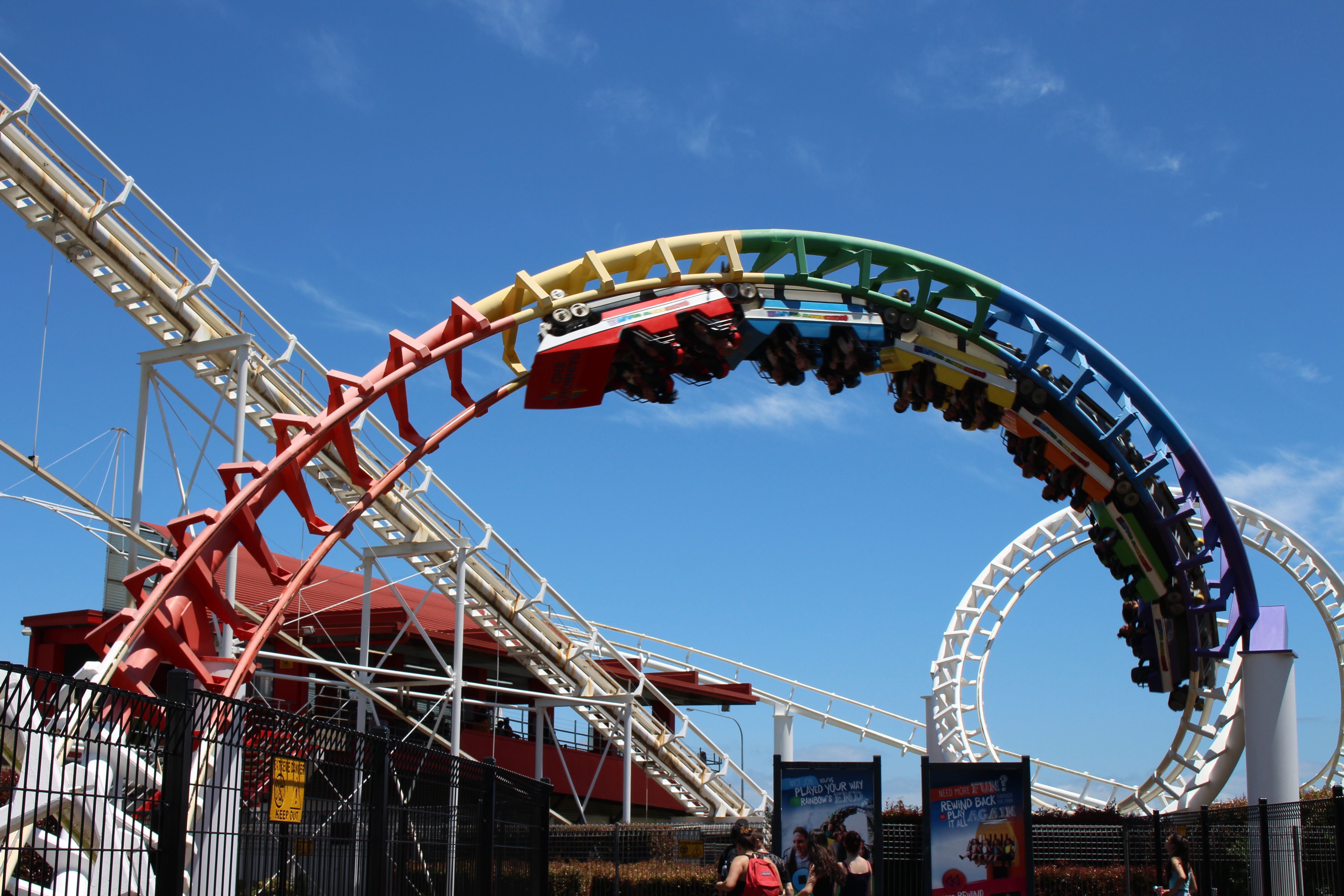 Rainbow's End Corkscrew Coaster 2019